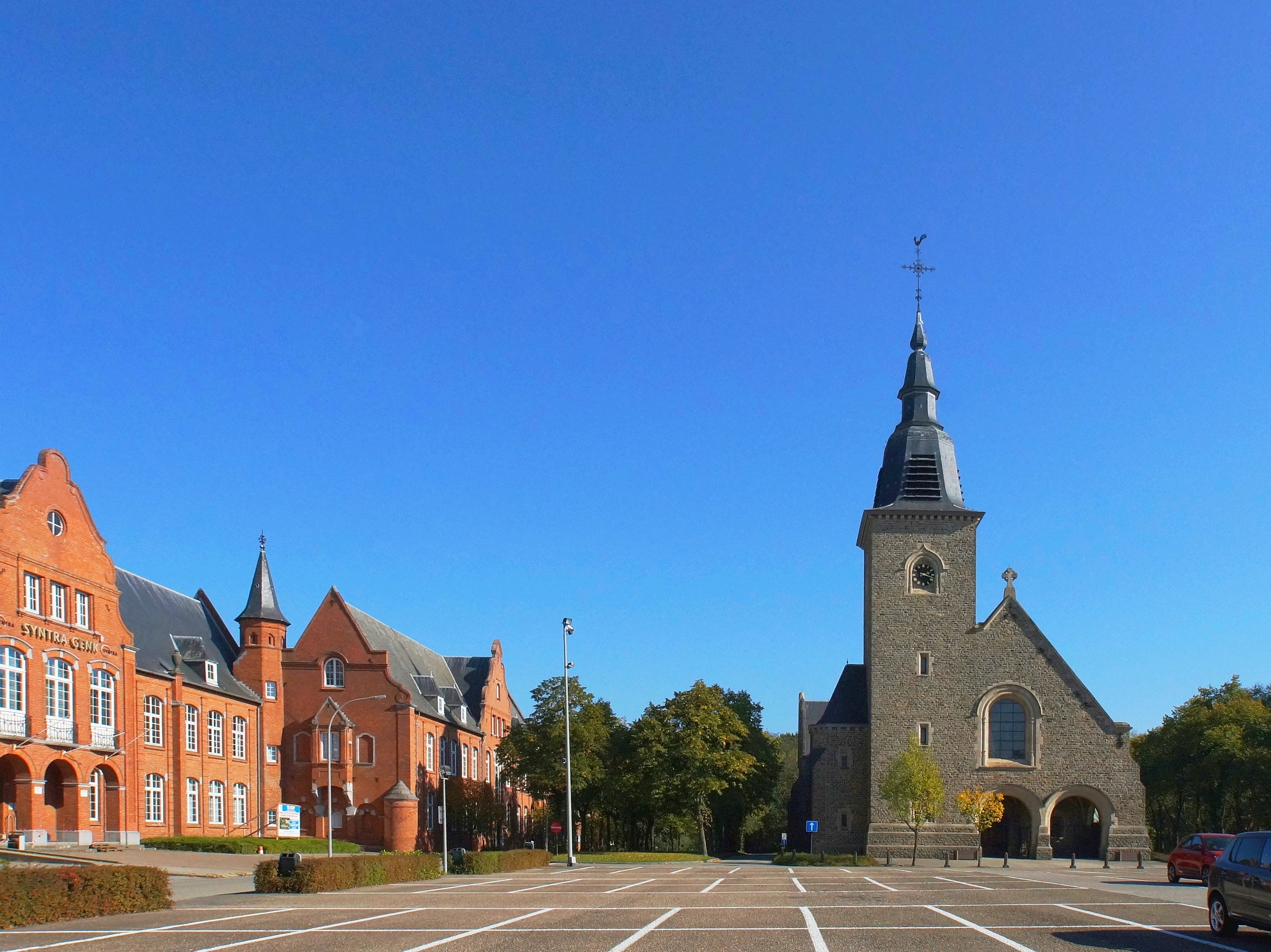 Sacred Heart Church and Girl's School (Evence Coppéeplaats, Winterslag) - Work by architect Adrien Blomme